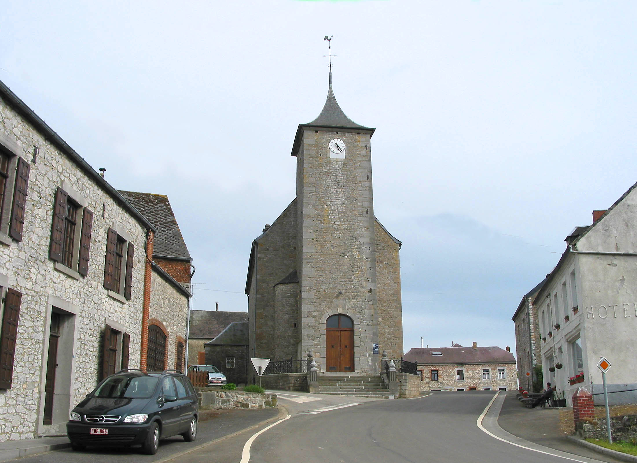 Gochenée (Belgium), the surroundings of Saint Géry’s church (1729).